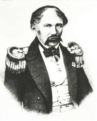 Portrait of Karl Rudolf Brommy (* 1804-09-10 † 1860-01-09), German Admiral